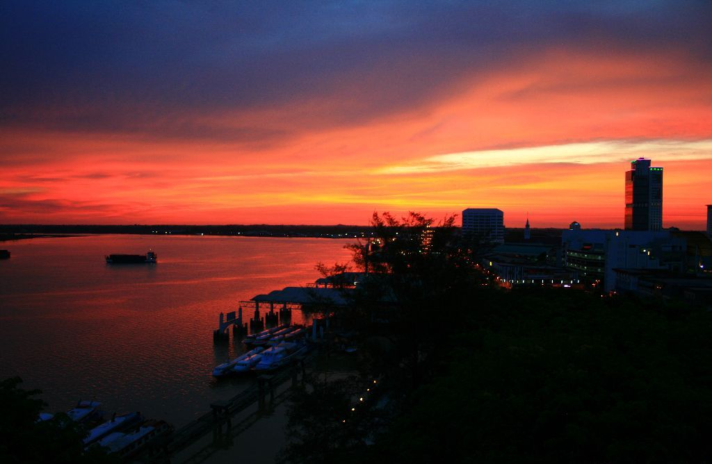 Rajang river during sunset. Left to right: wharf terminal at the river bank, Hua Lin building, and Wisma Sanyan